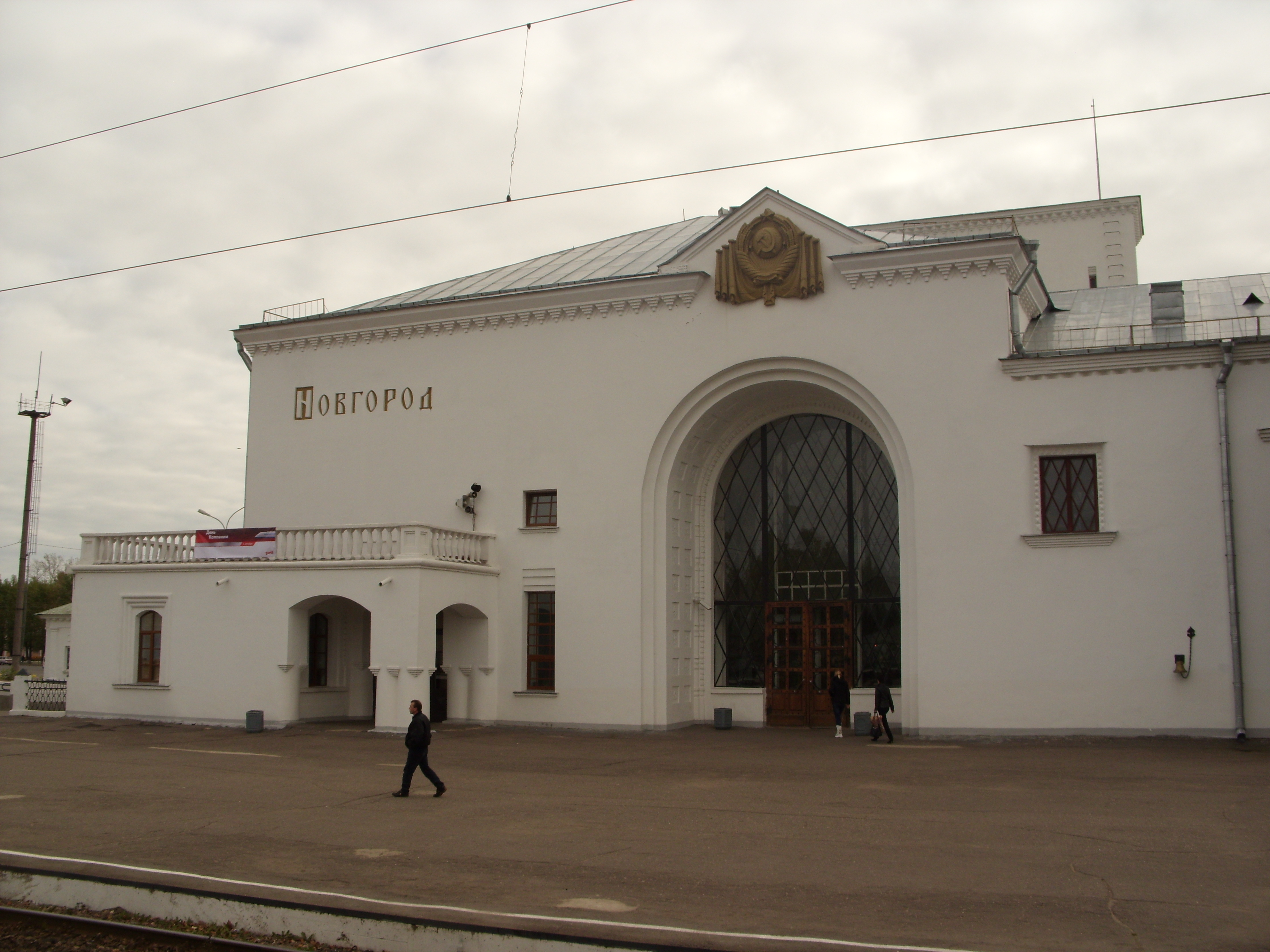 Novgorod train station, from the platform.